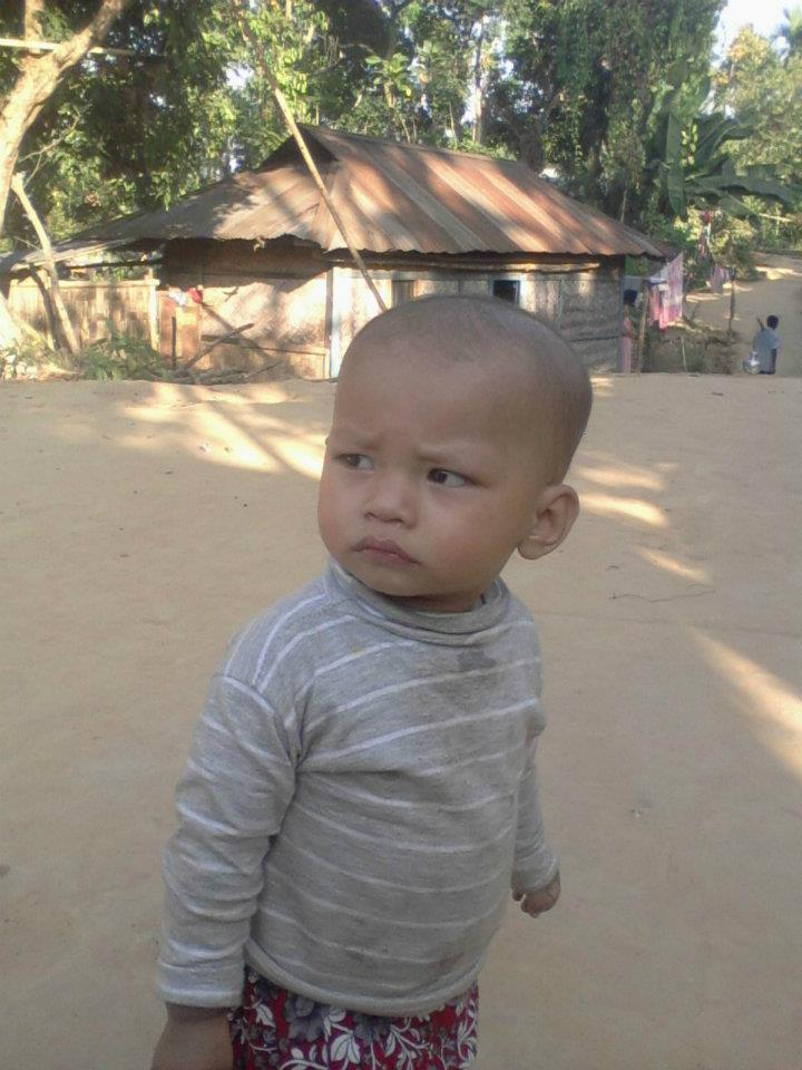 Khasia Children-02, Srimongol, Moulvibazar, Bangladesh